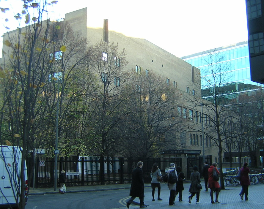 Southwark Crown Court, south London